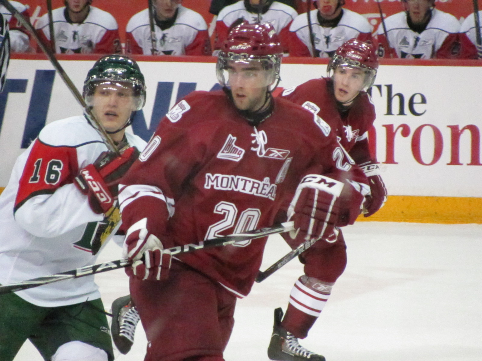 Louis Leblanc of the Montreal Junior Hockey Club in a game against the Halifax Mooseheads on October 8, 2010.